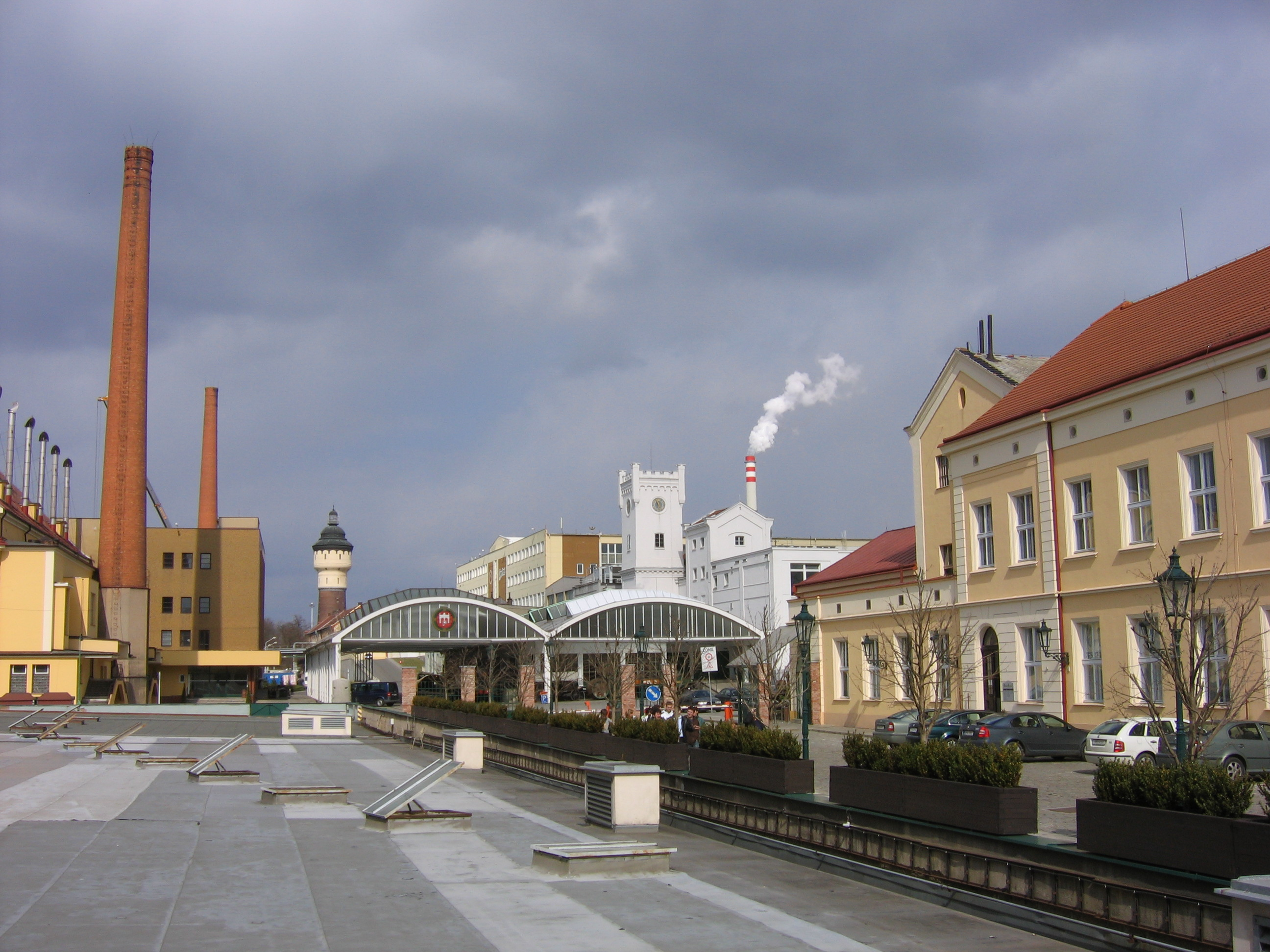 City of Plzeň, Czech Republic. Pilsen, Tschechien. Brewery of Pilsen beer.